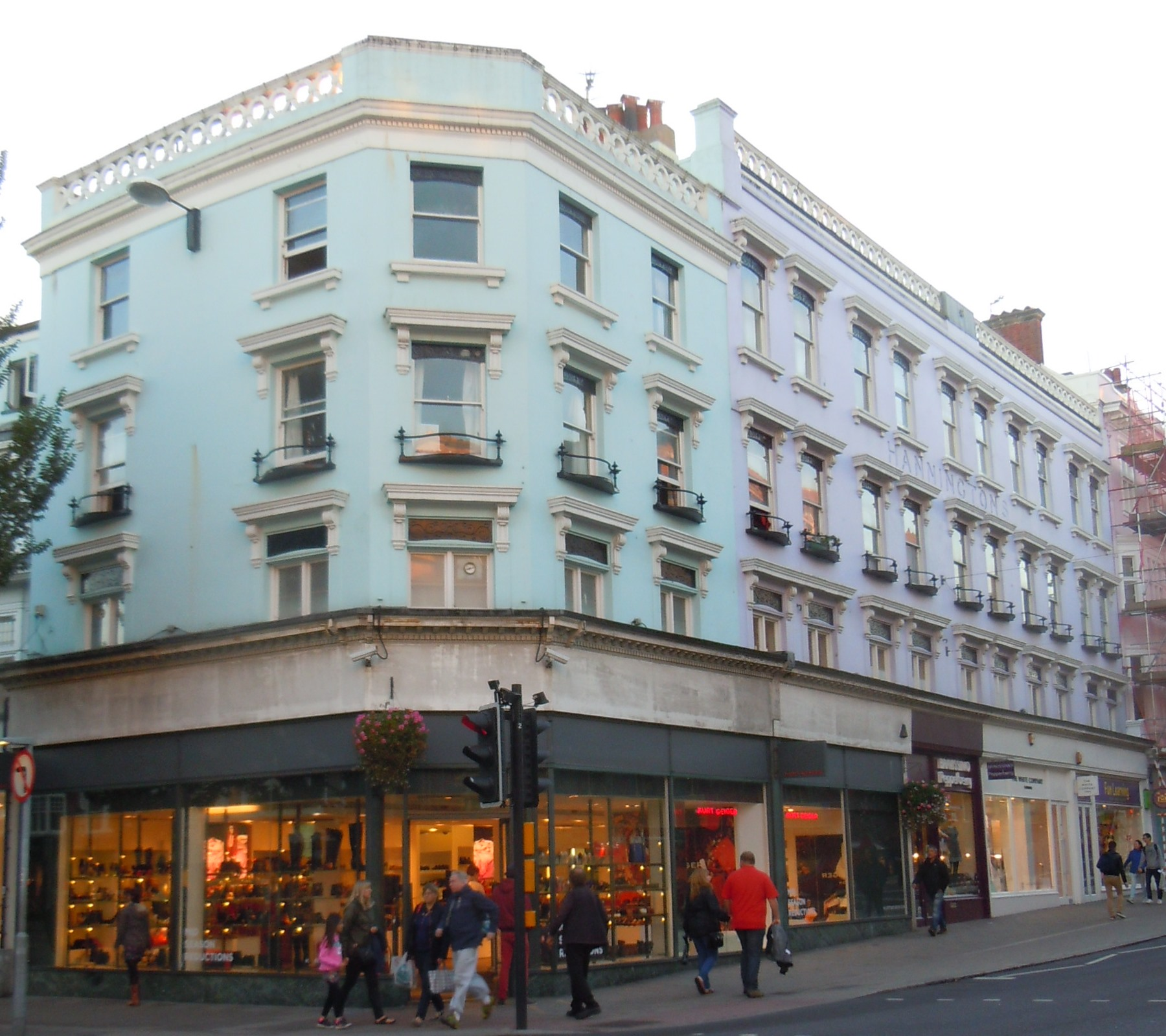 Former Hanningtons Department Store, East Street/Market Street/North Street, Brighton, City of Brighton and Hove, East Sussex. Founded in 1808 by Smith Hannington. Continued as a department store until 2001. Listed at Grade II by English Heritage (IoE Code 480663). This section is 1–5 North Street.